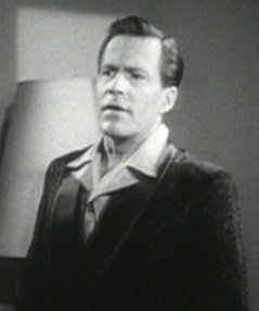 Cropped screenshot of Hugh Marlowe from All About Eve.